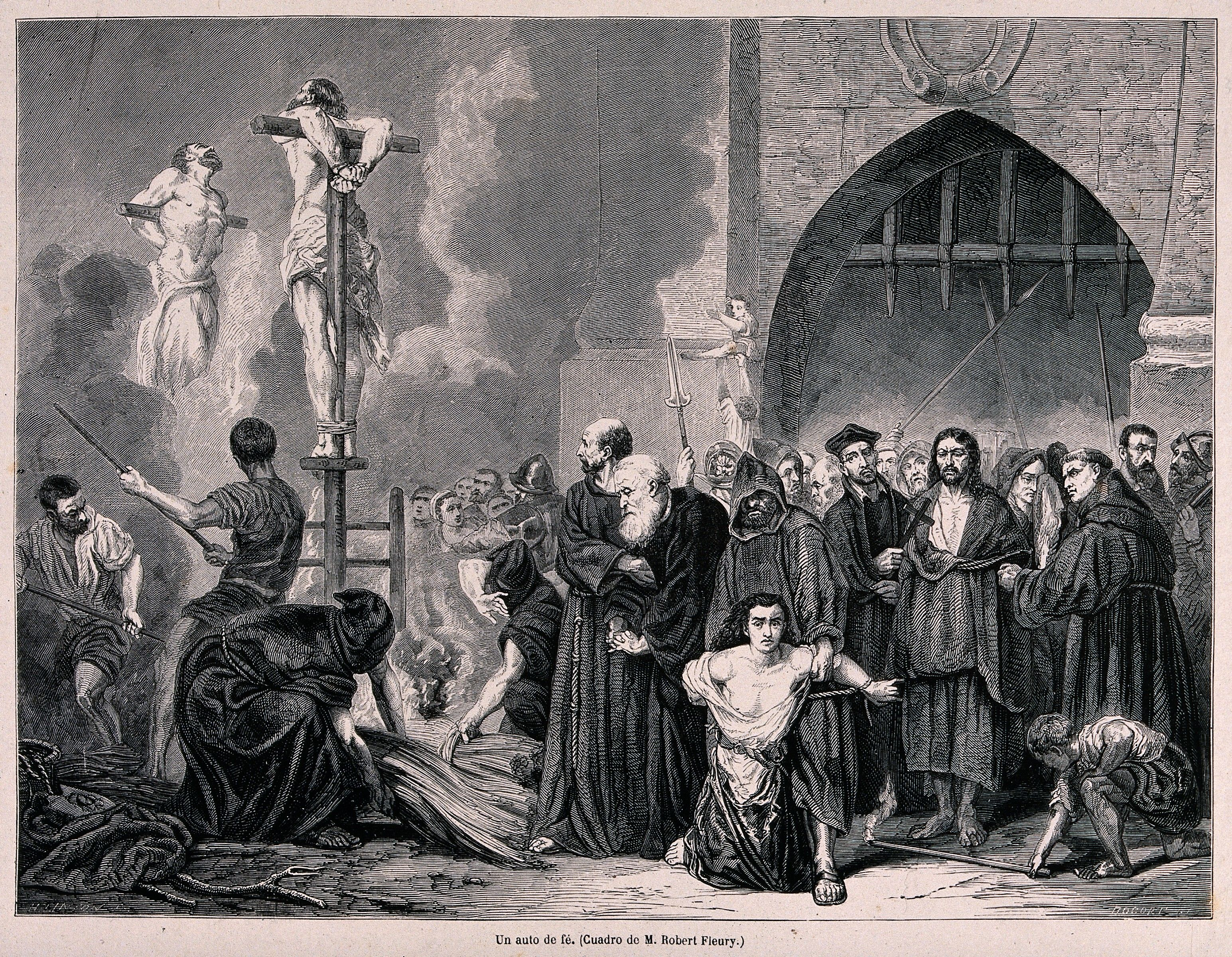 An auto-da-fé of the Spanish Inquisition and the execution of sentences by burning heretics on the stake in a market place. Wood engraving by Bocort after H.D. Linton. Iconographic Collections Keywords: Henry Duff Linton